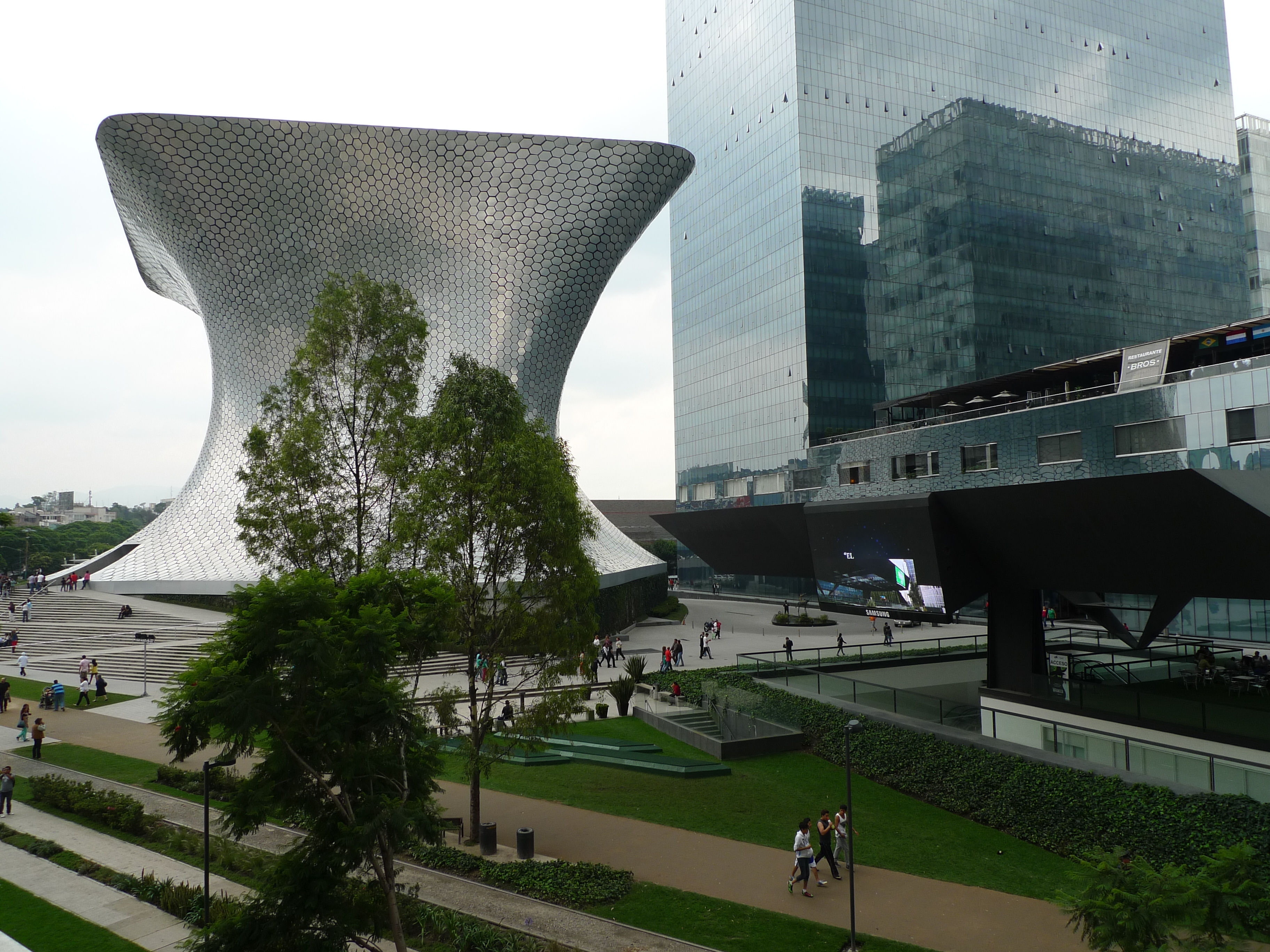 View of the Museo Soumaya Plaza Carso building and its surroundings — in the Nuevo Polanco barrio, México, D. F.